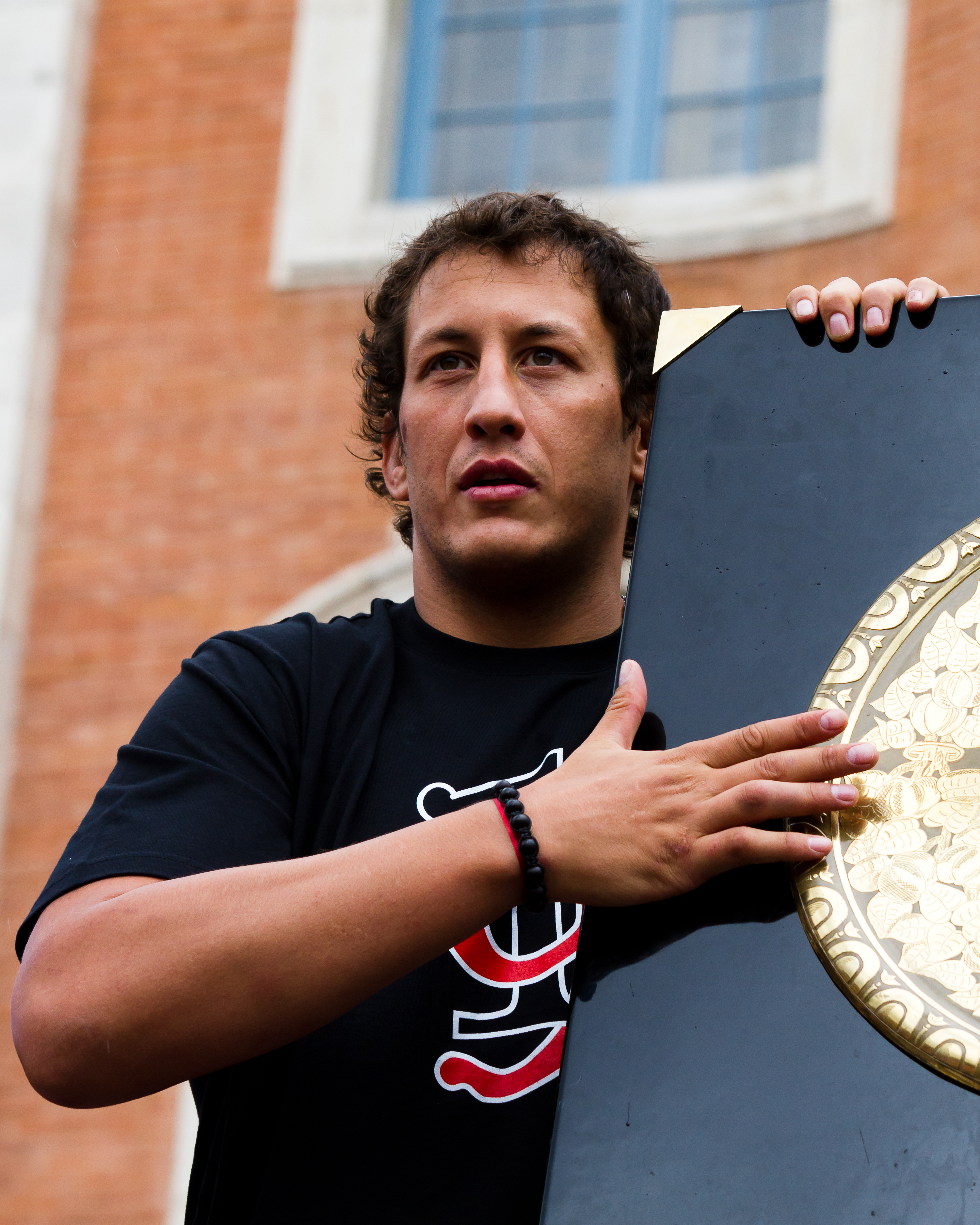 Patricio Albacete holding the Brennus shield in the Capitole de Toulouse to celebrate the 19th national championship title of the Stade toulousain.